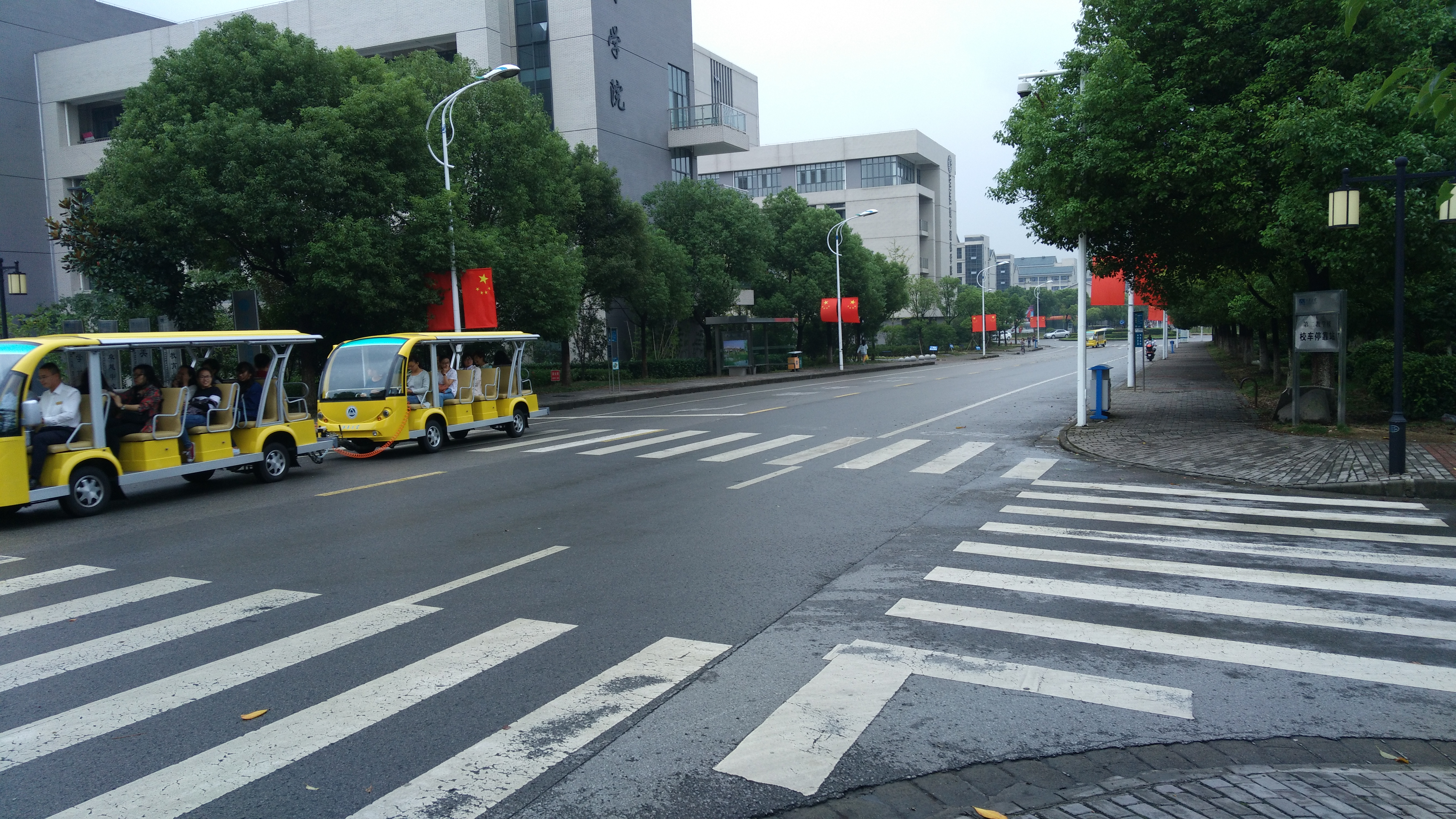 campus